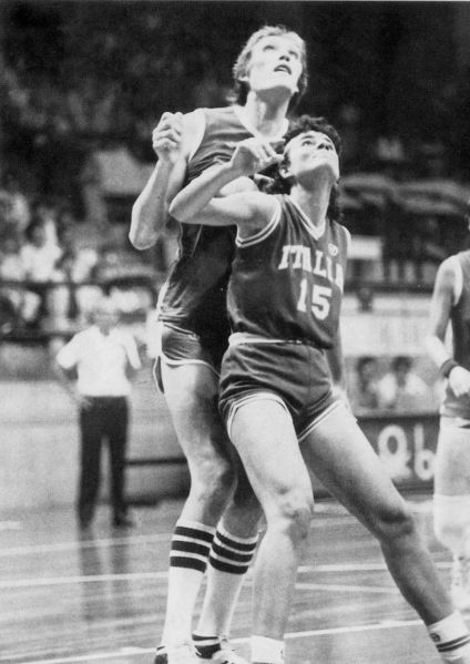 Stefania Passaro, Italy, 1982